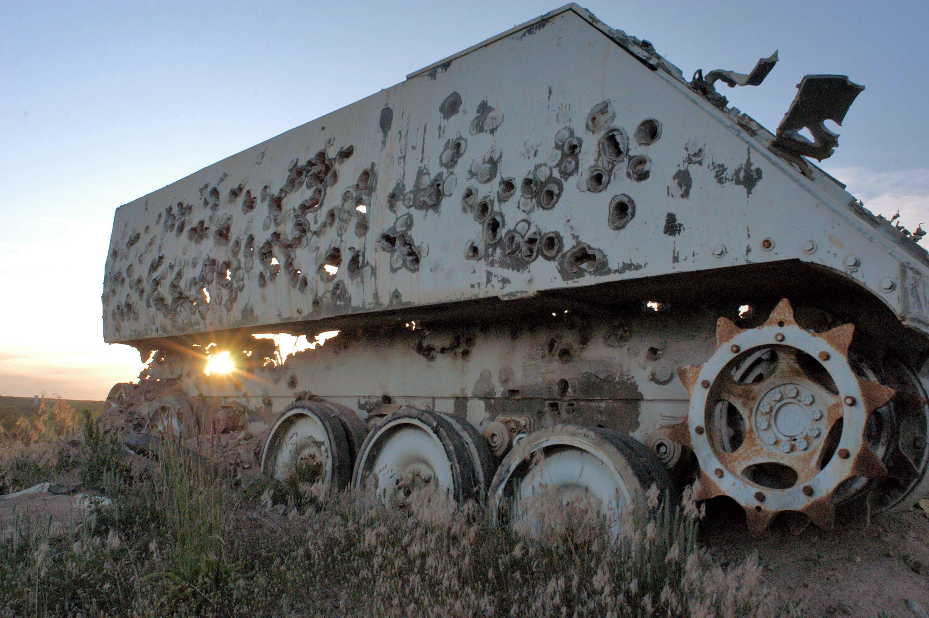 Used as a gunnery target at Cannon Range near Fort Leonard Wood, Mo., this M113 armored personnel carrier has been hit repeatedly by 30mm bullets from the 442nd Fighter Wing's A-10s. Cannon Range, run by the Missouri Air National Guard, is vital to training the wing's A-10 pilots, as well as pilots from other Air Force Reserve, Air National Guard and Regular Air Force units across the country. (U.S. Air Force photo/Maj. David Kurle)